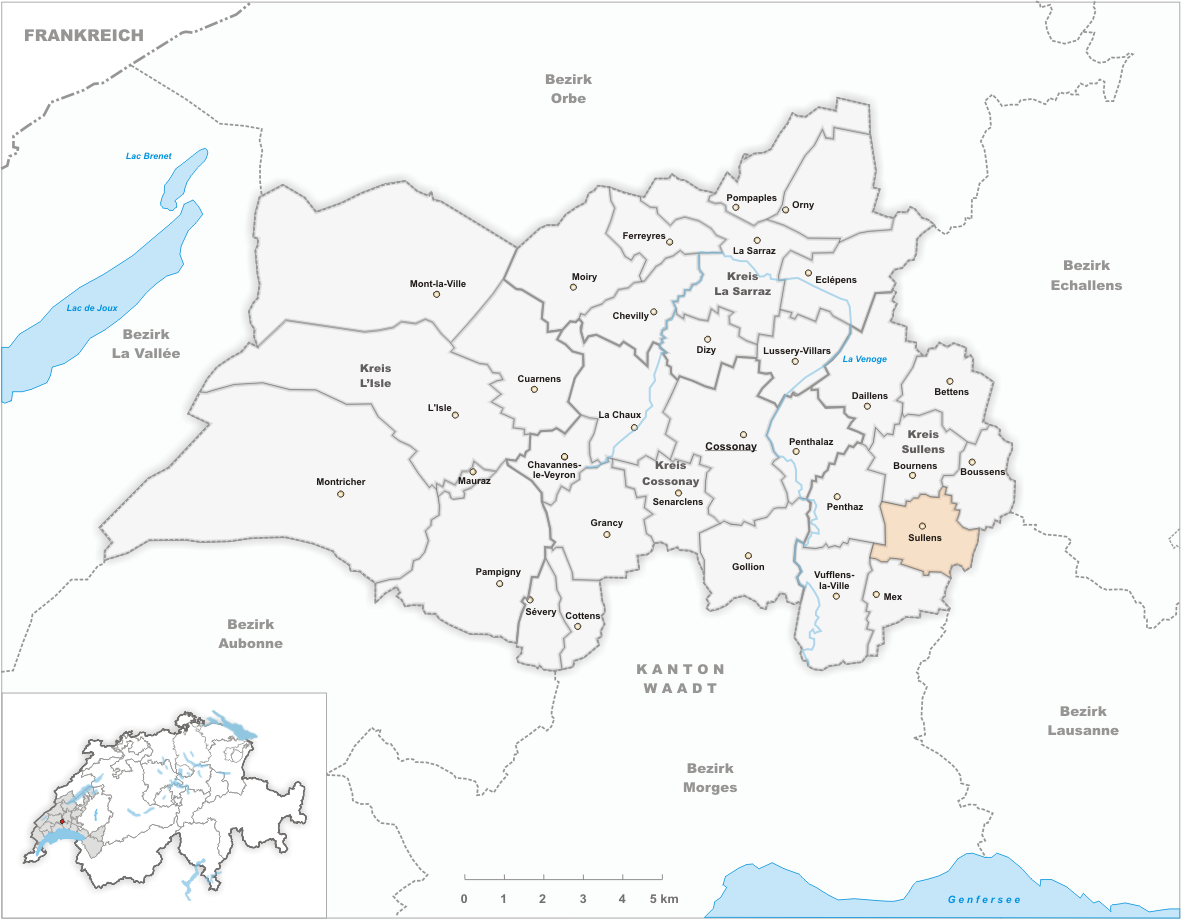 Municipality Sullens